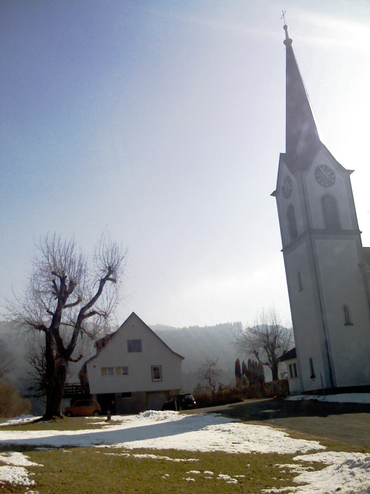 Church of Ricken, Canton of St. Gall, Switzerland - Preĝejo de Ricken, Kantono Sankt-Galo, Svislando